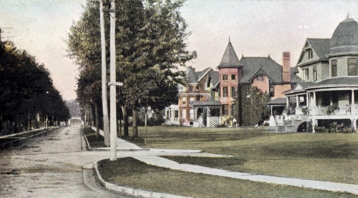 Print (photomechanical), Corner King and Lacroix Streets, Chatham, ON, about 1910, Coloured ink on paper mounted on card - Offset - 7.5 x 14 cm